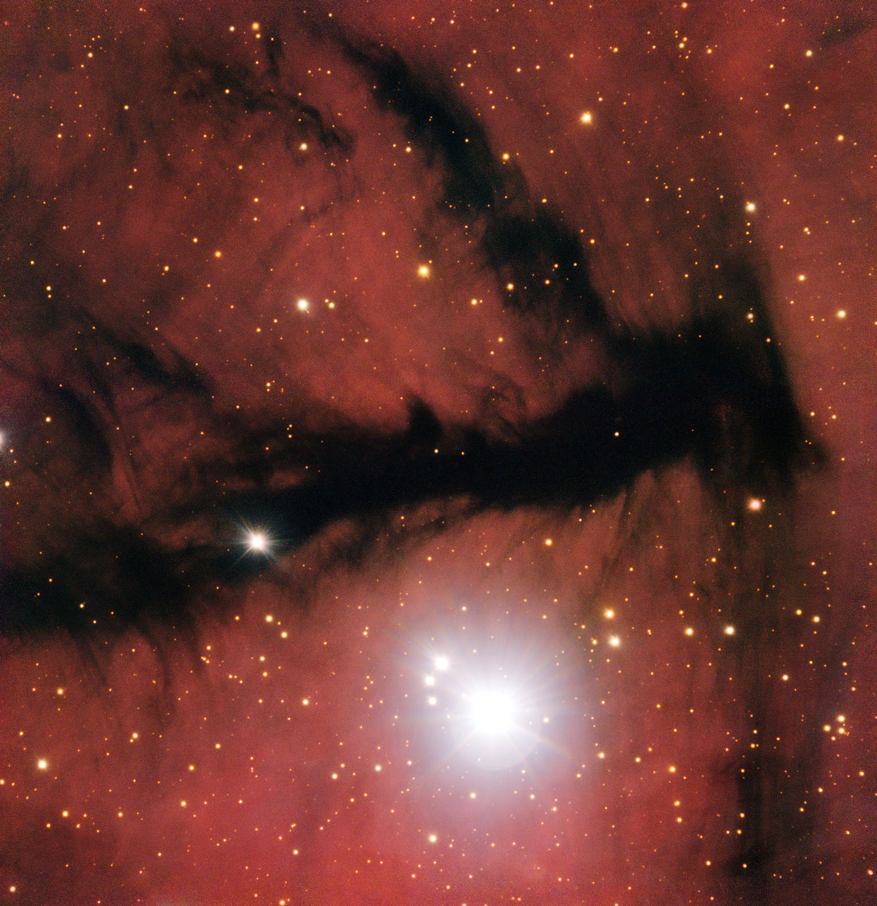 The smokey black silhouette in this new image is part of a large, sparse cloud of partially ionised hydrogen — an HII region — known as Gum 15. In wide-field images this nebula appears as a striking reddish purple clump dotted with stars and slashed by opaque, weaving dust lanes. This image homes in on one of these dust lanes, showing the central region of the nebula. These dark chunks of sky have seemingly few stars because lanes of dusty material are obscuring the bright, glowing regions of gas beyond. The occasional stars that do show up in these patches are actually between us and Gum 15, but create the illusion that we are peering through a window out onto the more distant sky. Gum 15 is shaped by the aggressive winds flowing from the stars within and around it. The cloud is located near to several large associations of stars including the star cluster ESO 313-13. The brightest member of this cluster, named HD 74804, is thought to have ionised Gum 15’s hydrogen cloud. This ionised hydrogen content is the cause of the red hue permeating the frame. This image was taken as part of the ESO Cosmic Gems programme using the FORS instrument on the Very Large Telescope at ESO’s Paranal Observatory in Chile. This project has actually produced multiple images of this target — back in July 2014, ESO released a stunning wide-field image of Gum 15 with the Wide Field Imager on the MPG/ESO 2.2-metre telescope at the La Silla Observatory that showed the nebula’s sculpted clouds, murky dust, and brightly shining stars in extraordinary detail. The portion of Gum 15 shown in the new and more detailed VLT image can be seen within the wider frame towards the top left quarter of the 2.2-metre image.